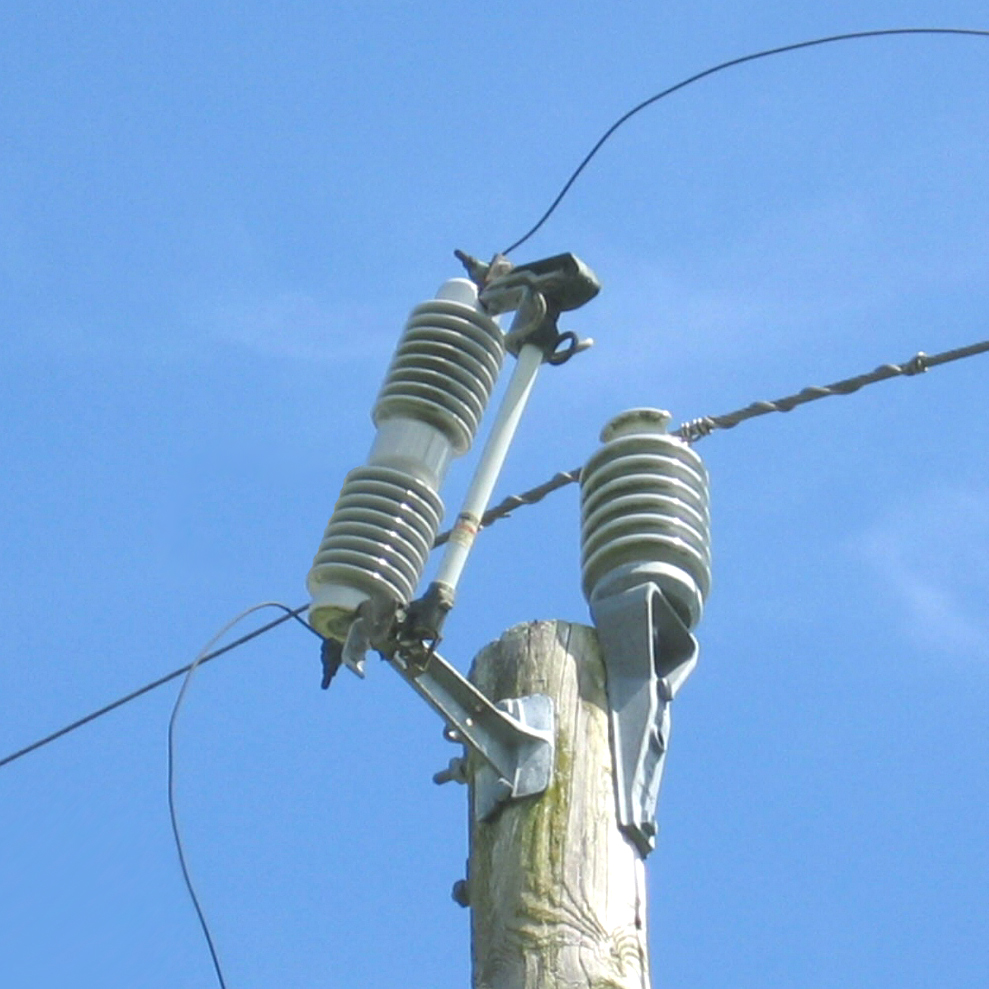 A fuse cutout at a service drop on a single-phase overhead power distribution line. The power line, supported by the insulator at the top of the pole, is visible in the background. The service drop is a feed line attached to the power line which feeds power to a single residence. The fuse cutout (device in foreground) is a combination fuse and switch which allows the transformer and residence to be disconnected from the power line in the event of an emergency. It consists of a fusible metal bar supported between two terminal clips by an insulator. If a short circuit occurs, the bar will melt and pivot open, giving a visual indication of the trouble. The sevice drop can also be manually disconnected from the line by electrical lineworkers while the line is energized, by pulling the device open using a long insulated fiberglass stick with a hook on the end, called a hotstick.